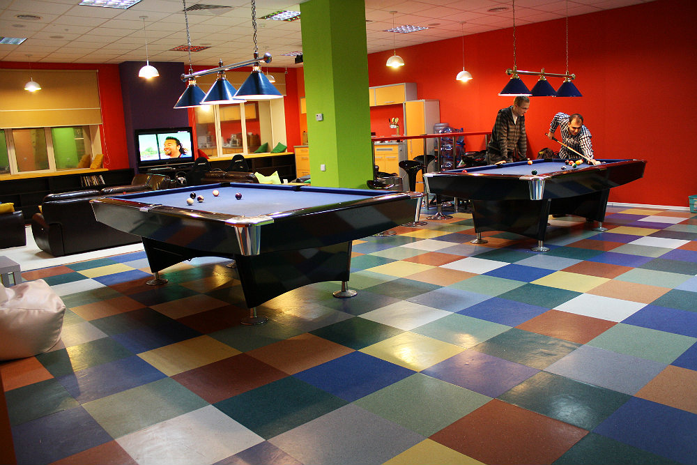 GL Club, lounge zone at GlobalLogic Kyiv